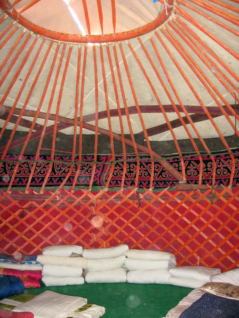 Inside a yurt in Karakul lake, close to Karakoram Highway in Xinjiang province (China).